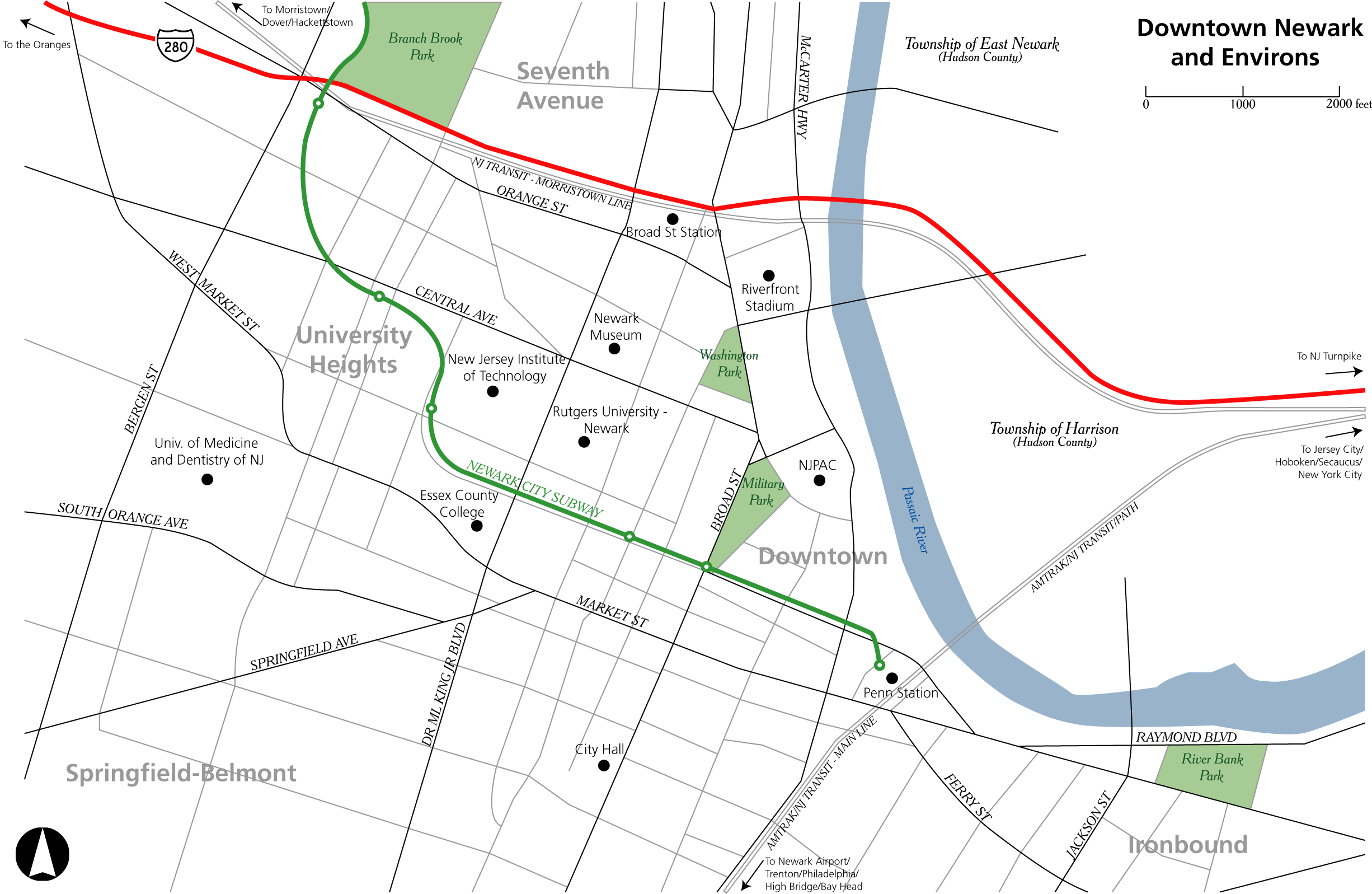 Map of Downtown Newark and Environs, created by User:Darkcore.